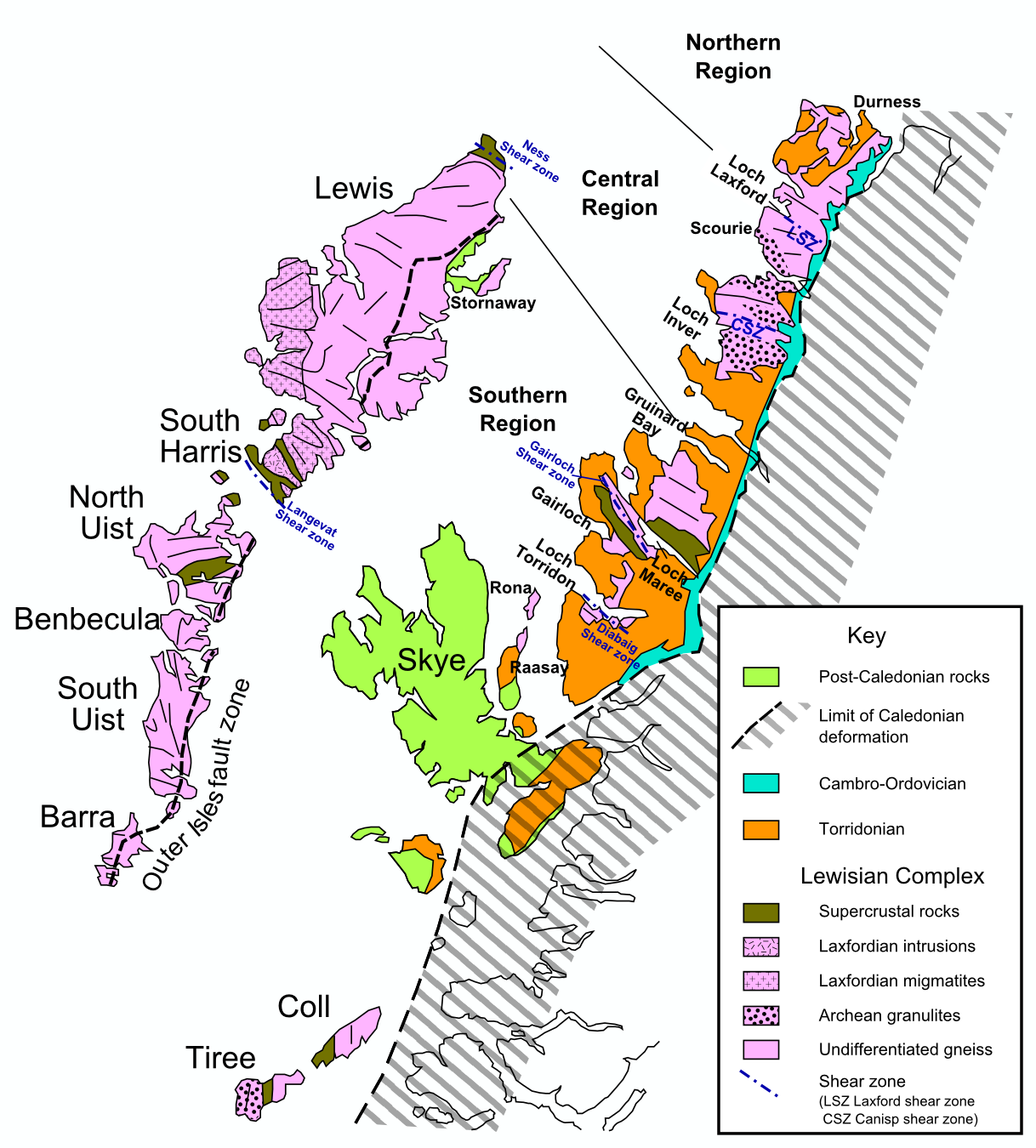 Geological map of the Hebridean Terrane, NW Scotland, modified after maps in the Geology of Scotland and other published maps